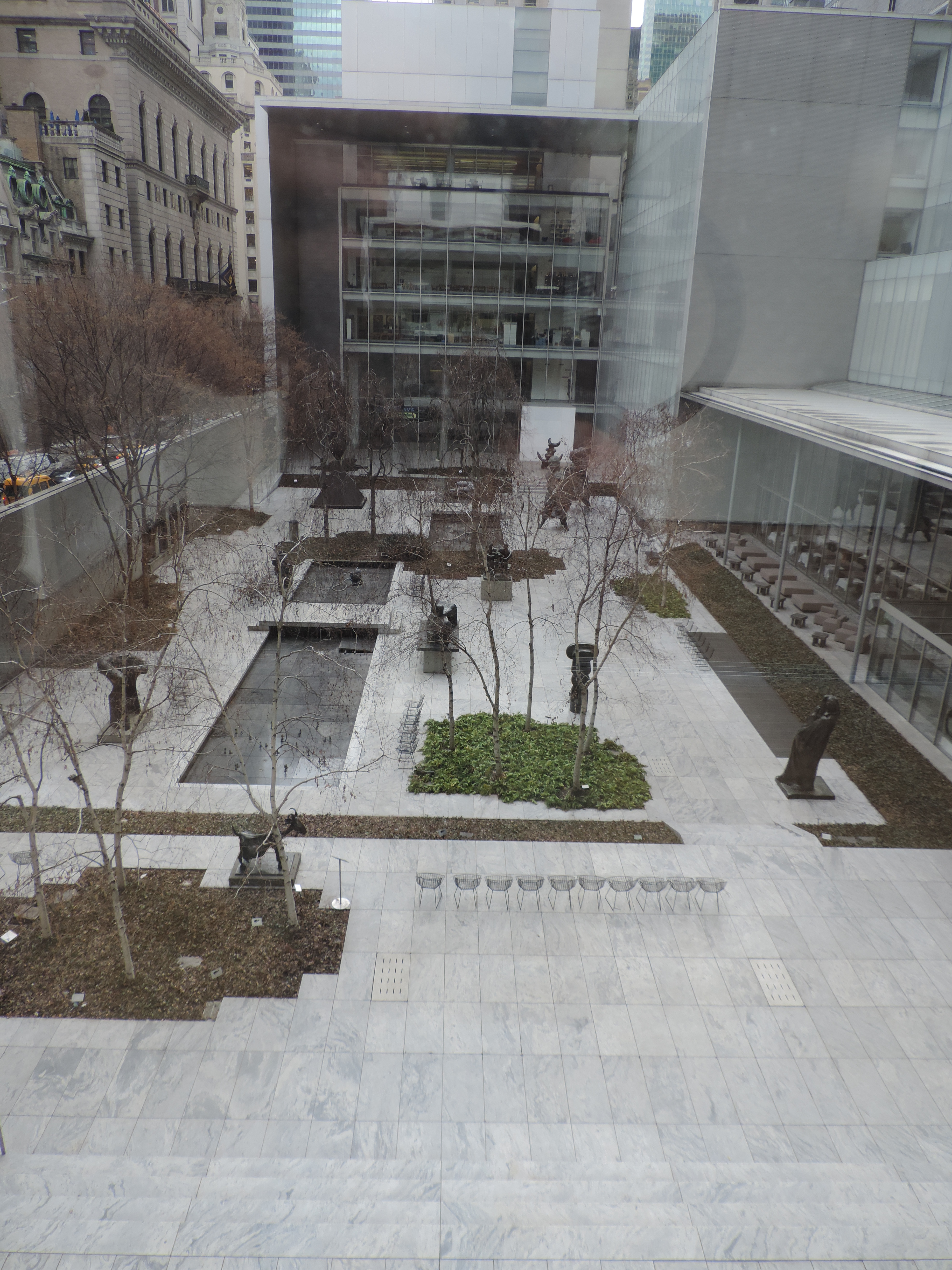 Looking east